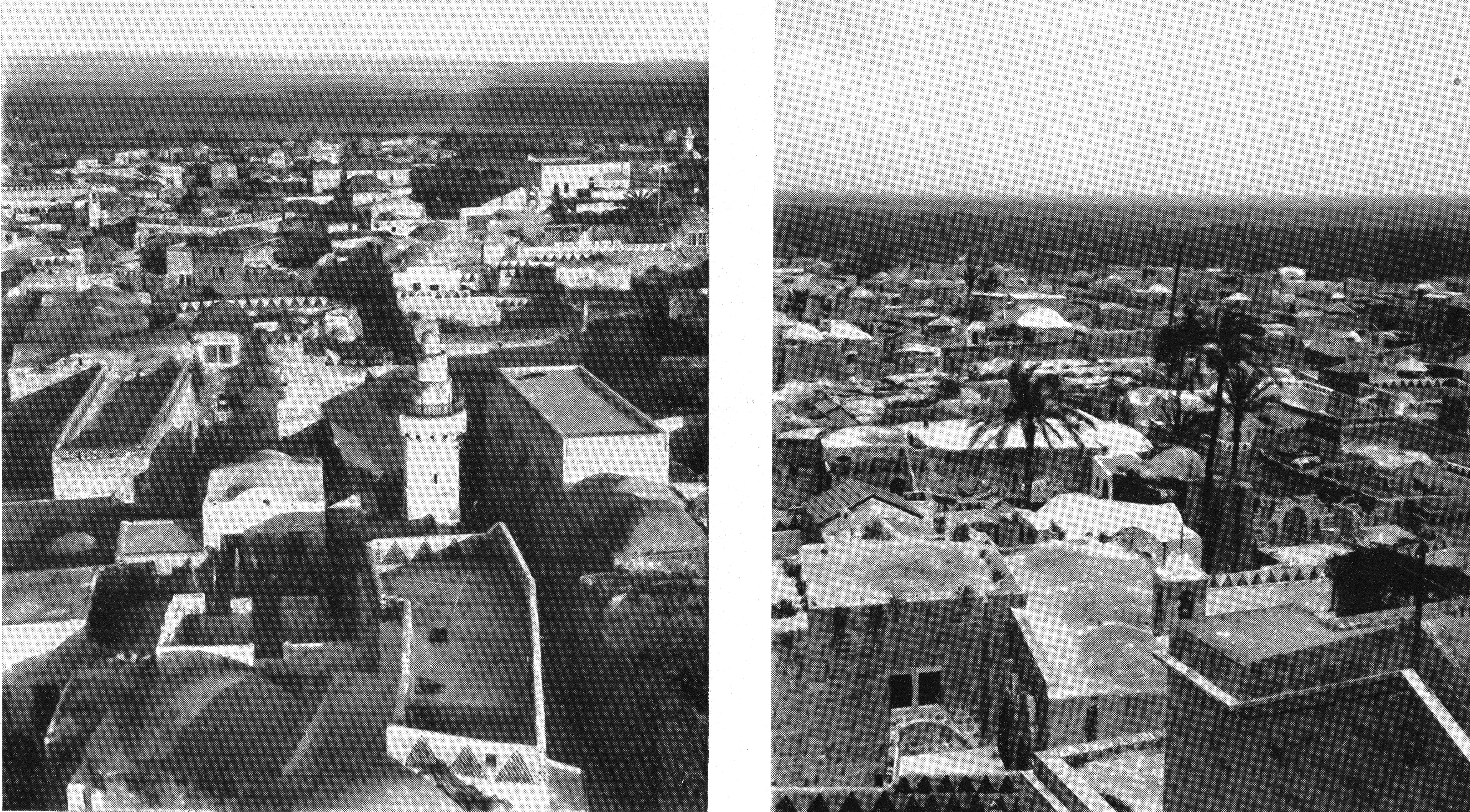 Views of Ramla and Lydda (Lod) in the 1920s